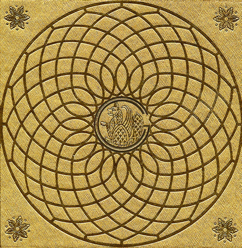 Ghiai-Chamlou Family Crest